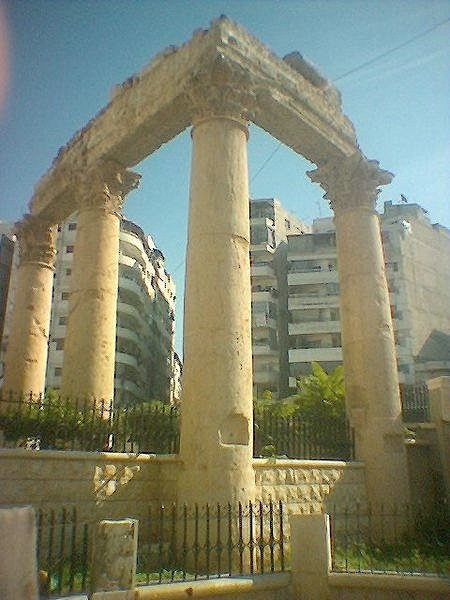 Ancient Roman Temple of Bacchus — in Downtown Latakia, Latakia Governorate, northwestern Syria.